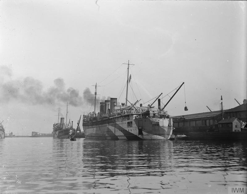 The Royal Navy in the Home Waters, 1914-1918 Royal Navy minelayer HMS PRINCESS MARGARET loading mines at Grangemouth minelaying base.